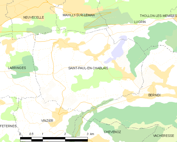 Map of French municipality Saint-Paul-en-Chablais